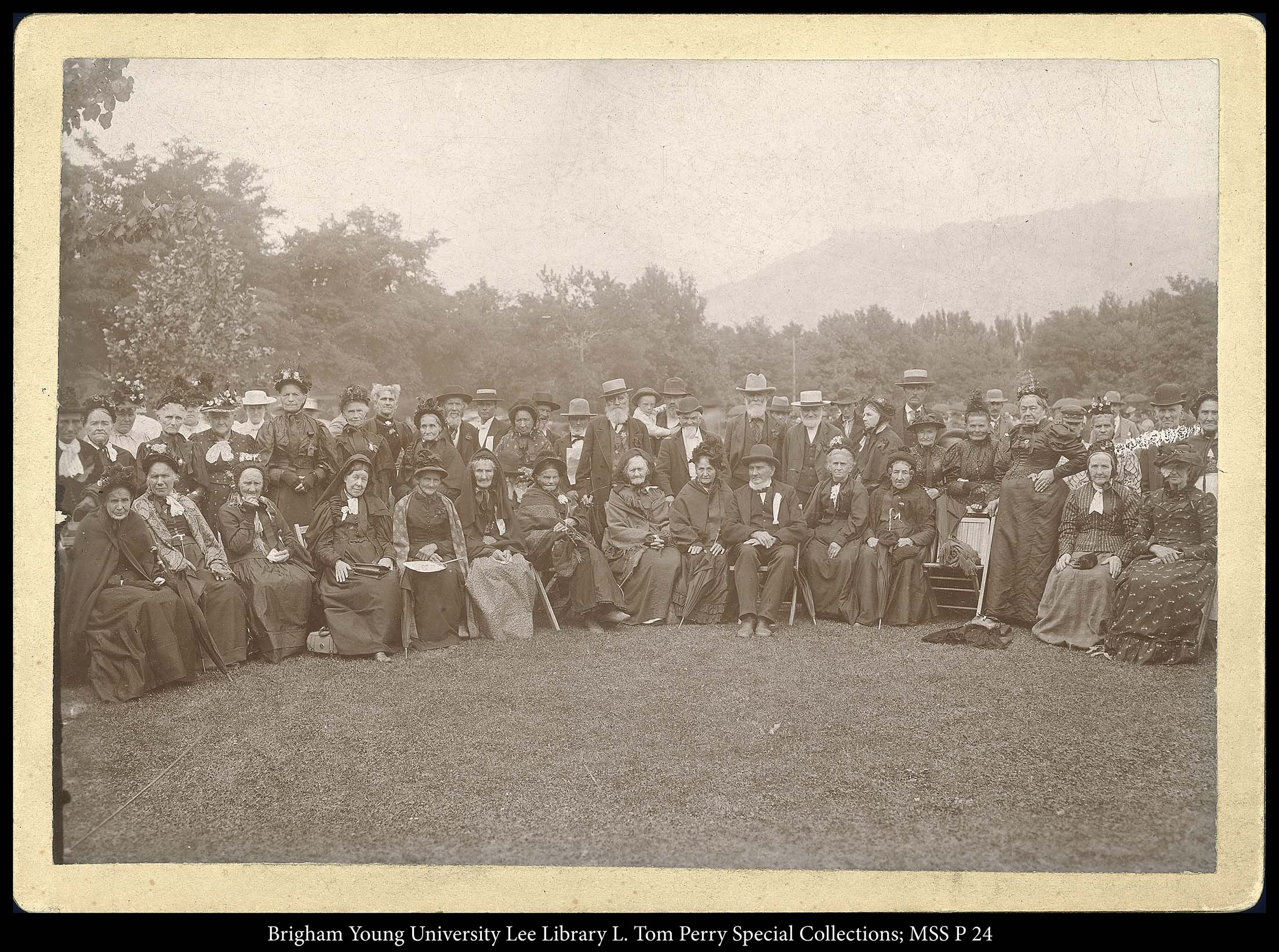 A group shot of two rows of older men and women. Written on back- Group over 89 - Ogden 1896.